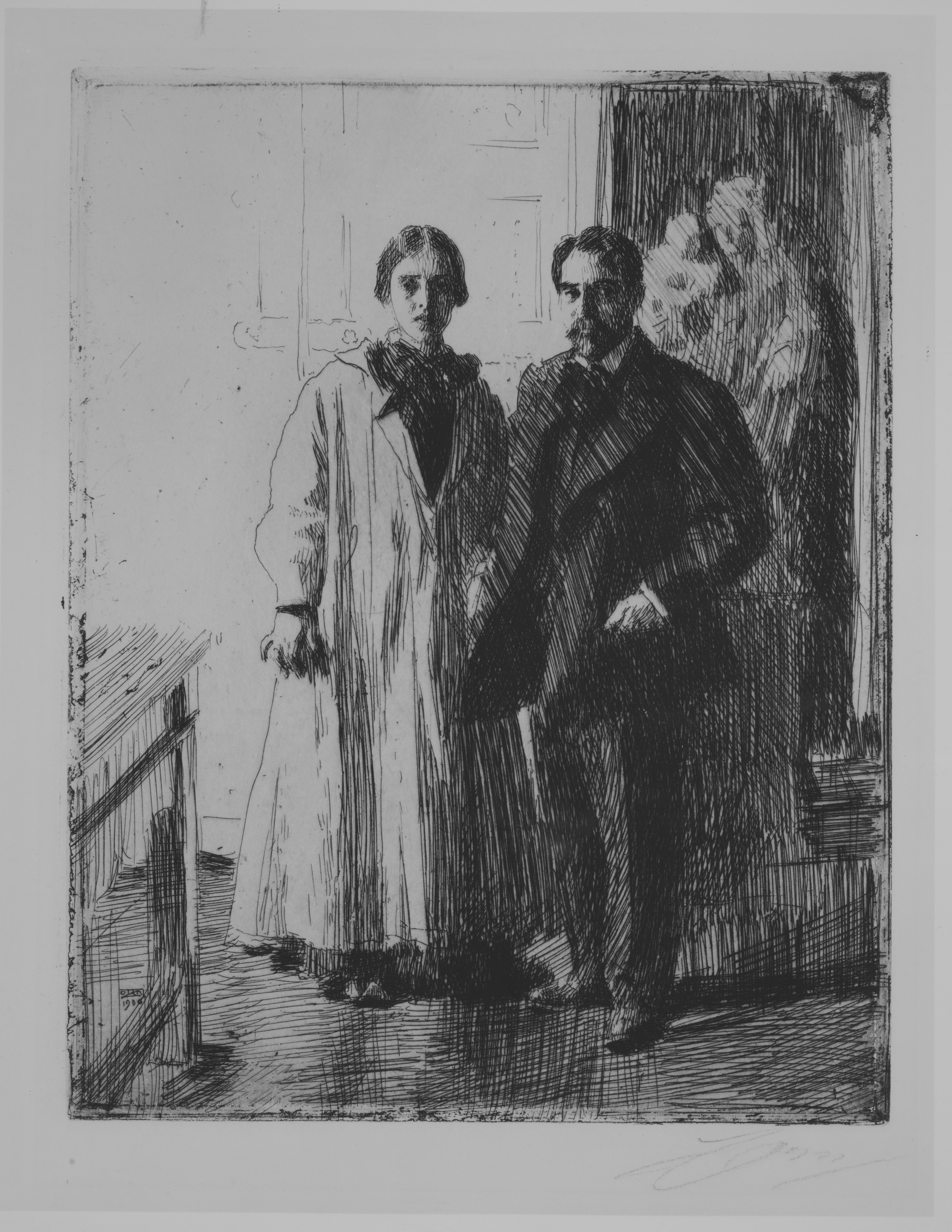 Print; Prints